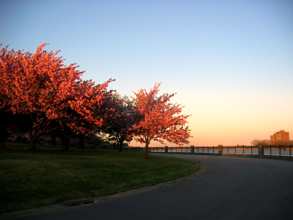 Sunset with trees in a park in Baltimore, Maryland